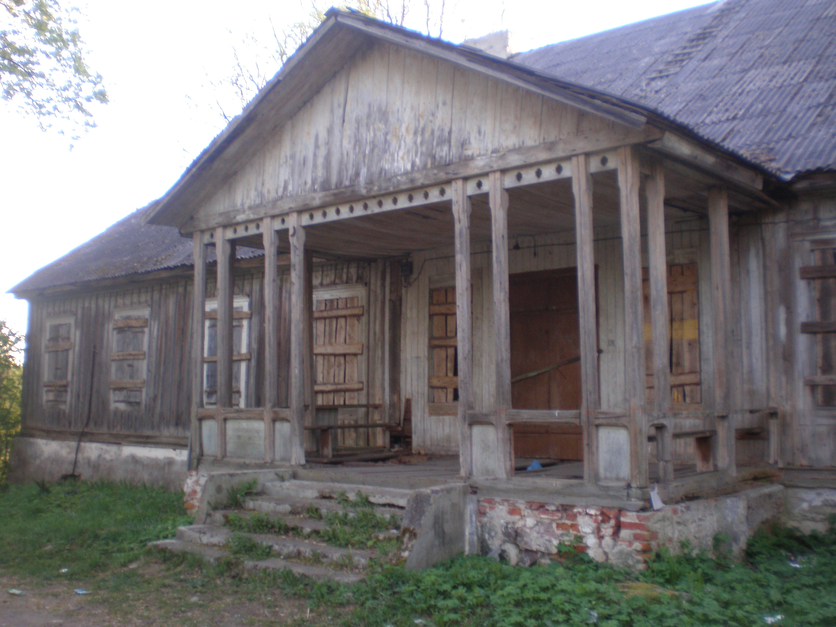 Barborlaukis manor